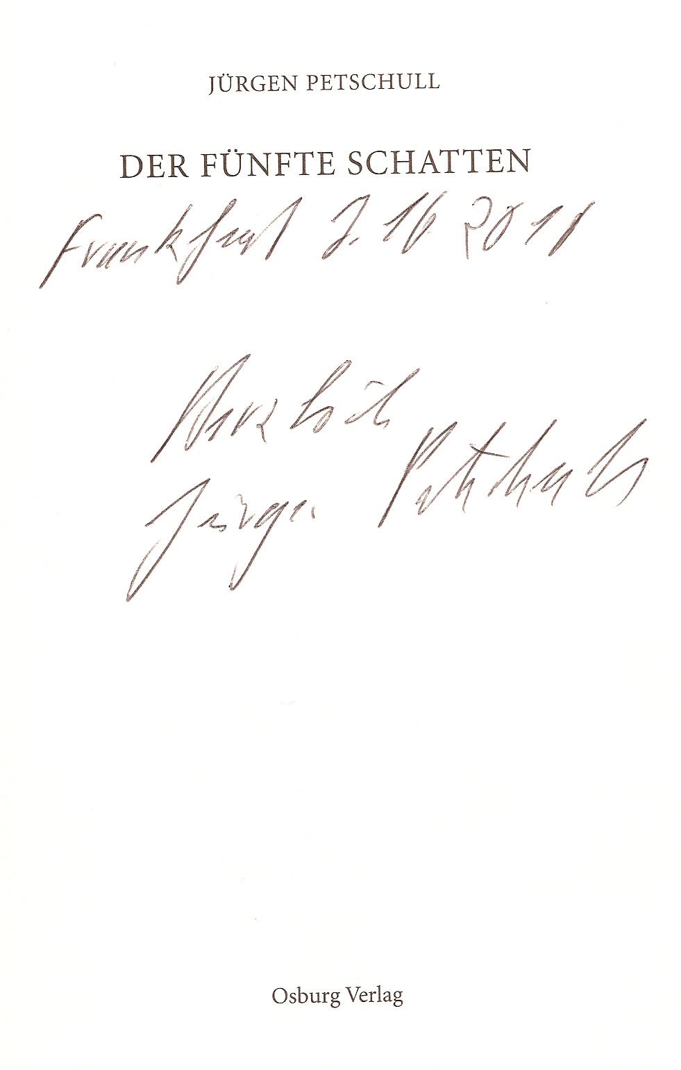 Autograph of Juergen Petschull, German writer.